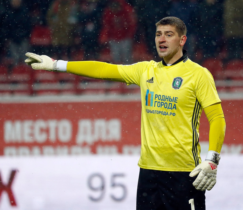 Aleksei Solosin with FC Tom Tomsk in a game against FC Lokomotiv Moscow.